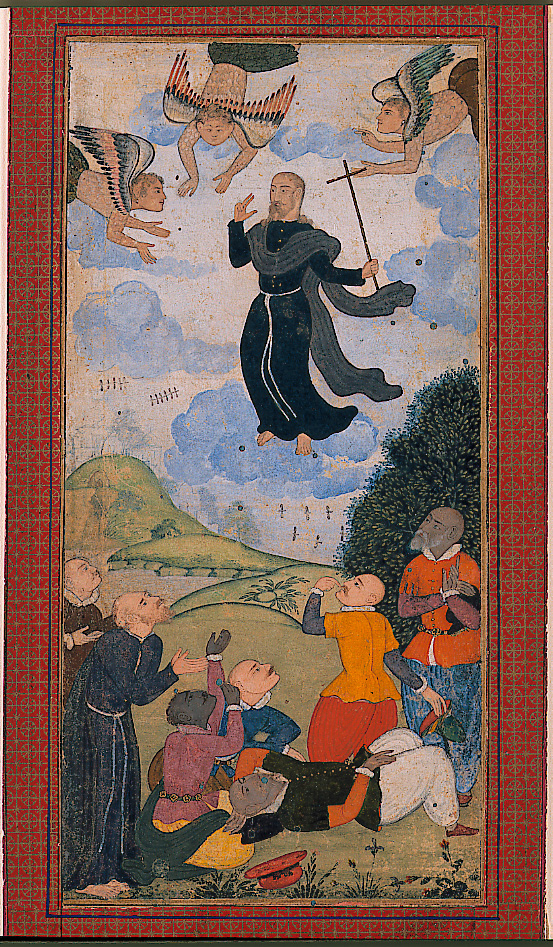 The ascension of Jesus in the guise of a priest, Dastan-i Masih, 1602-05. San Diego Museum of Art